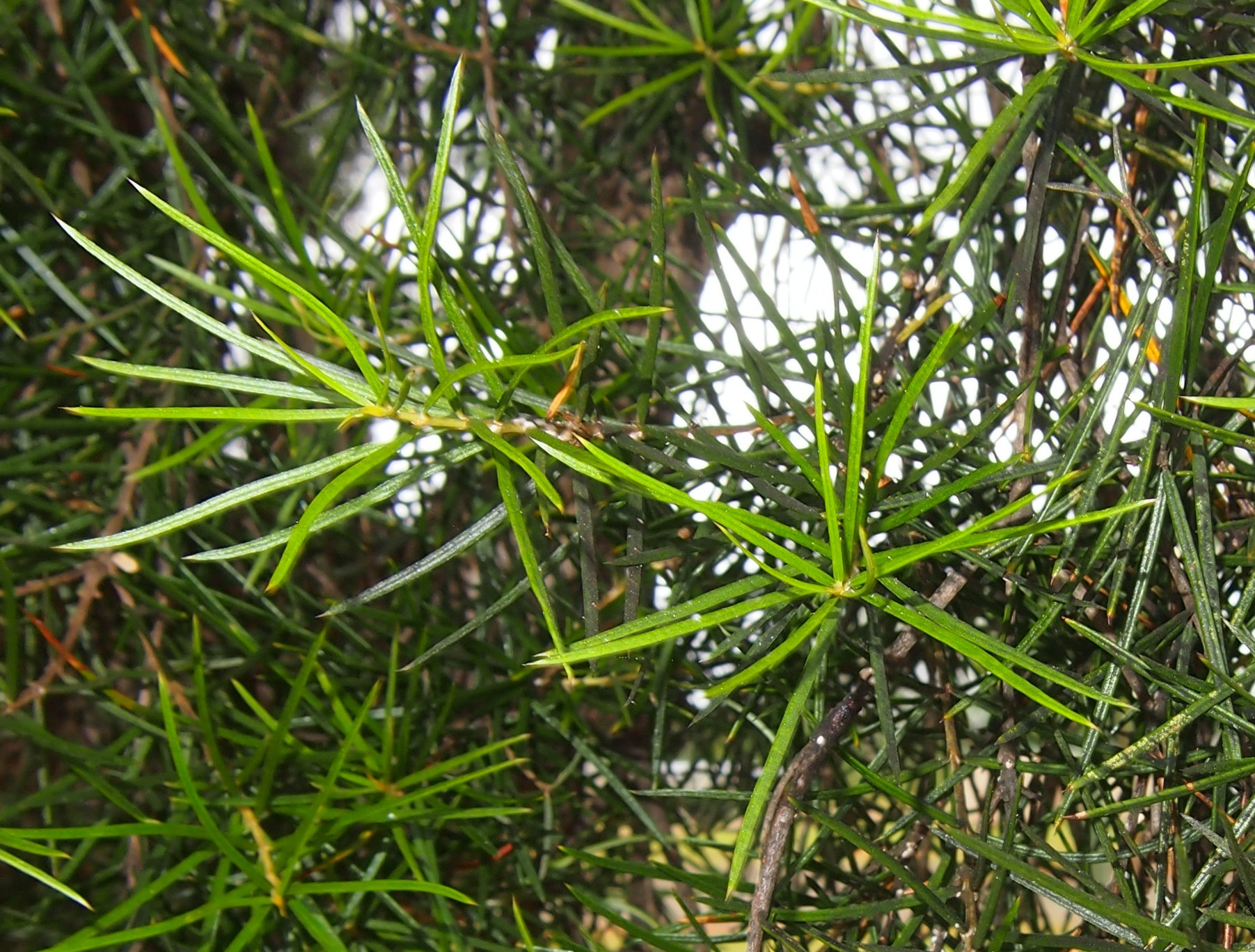 Budgeroo ("Lysicarpus angustifolius) foliage